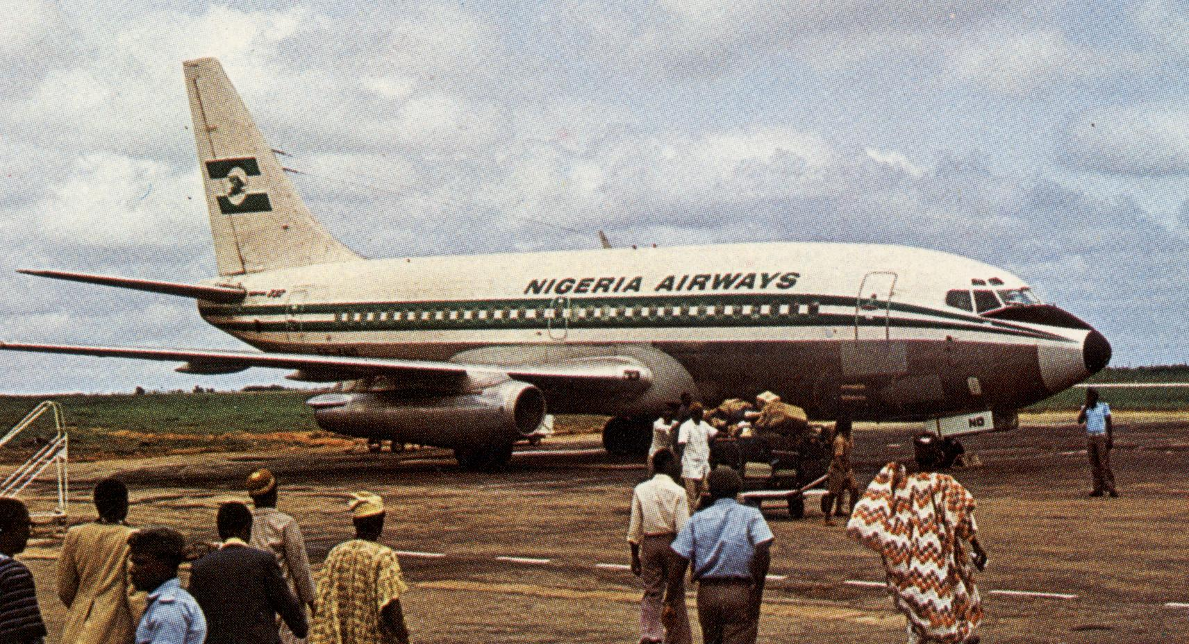 Boeing 737-2F9 5N-AND of Nigeria Airways on an internal service at Calabar, Nigeria